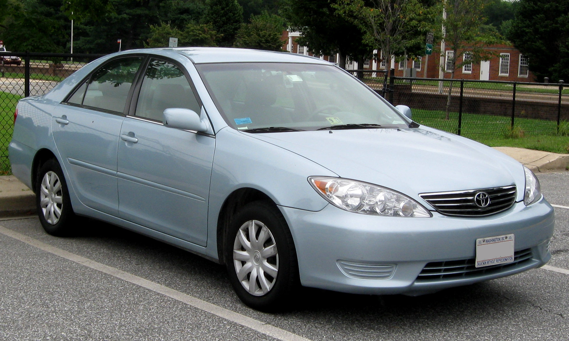 2005-2006 Toyota Camry LE photographed in College Park, Maryland, USA.